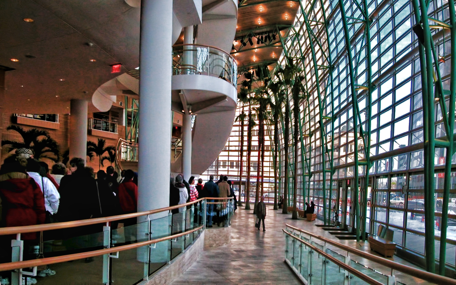 Volunteers showing up for usher instruction in February 2003 at the Brand-new Marian and Benjamin Schuster Center for the Performing Arts in Dayton, Ohio.